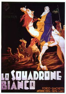 Poster for the 1936 film Lo squadrone bianco